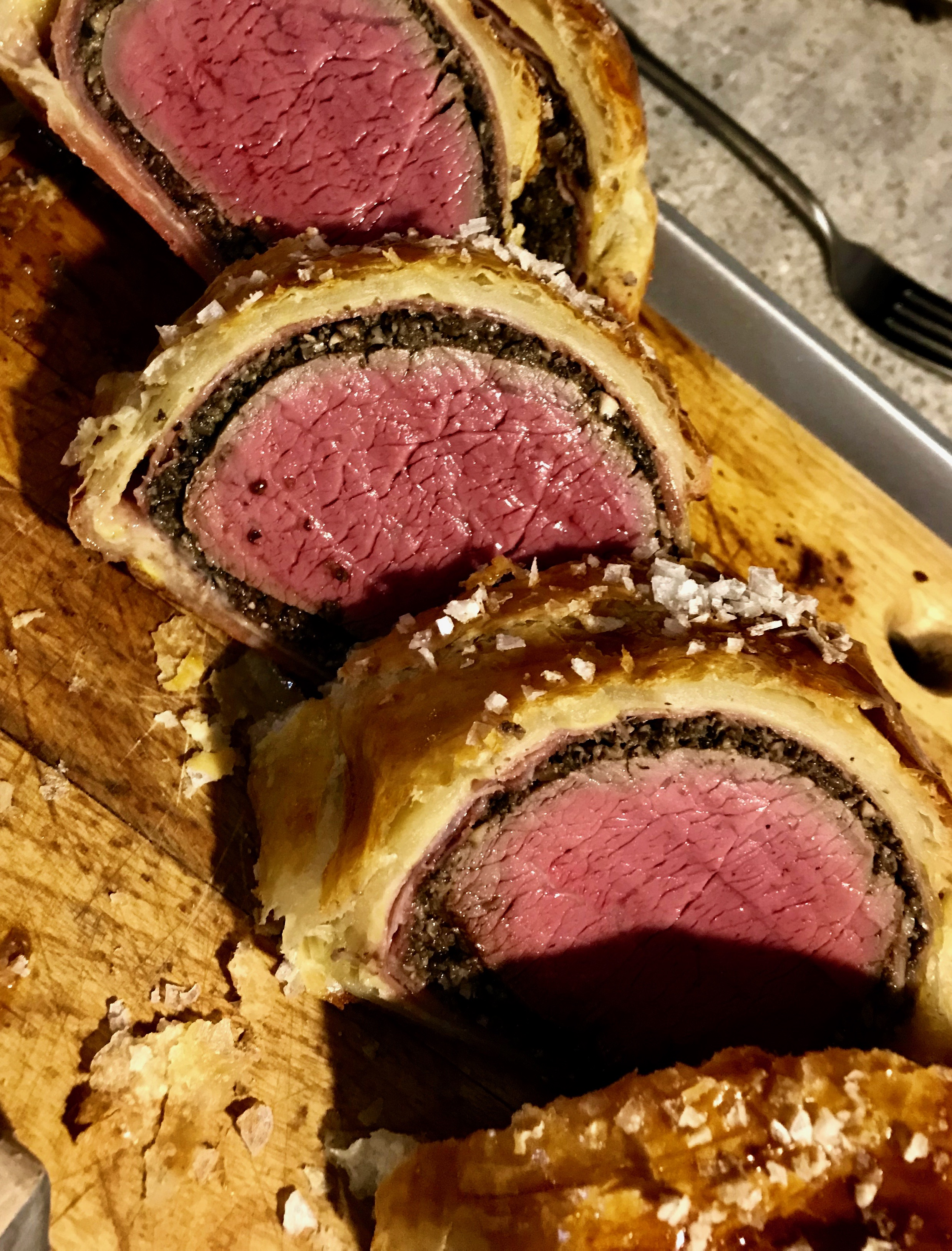 Beef Wellington created by Chefs Samuel & Kathleen, 2019